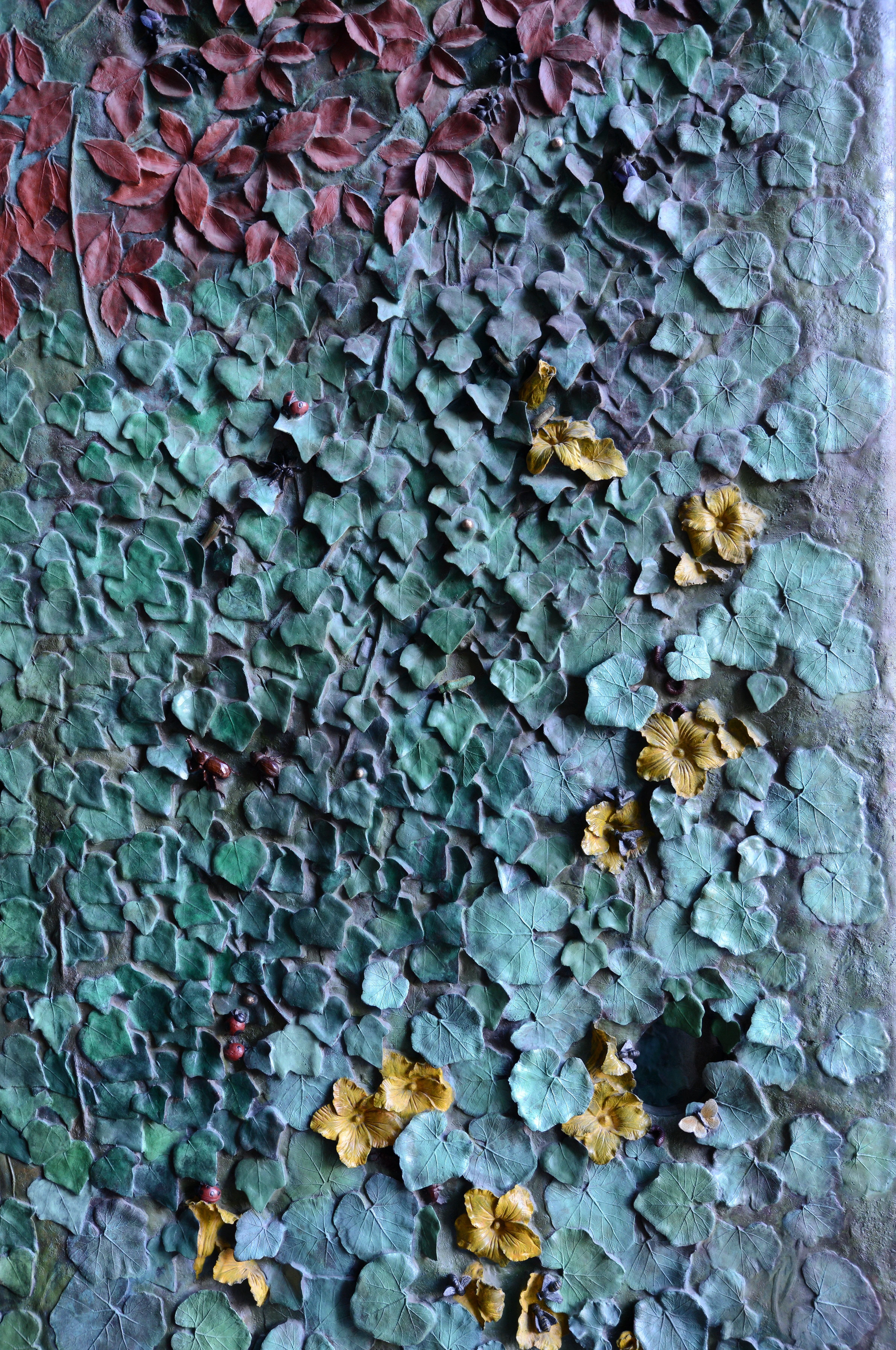 Sagrada Família Cathedral, detail of the Door of Natividad, by artistEtsura Sotoo